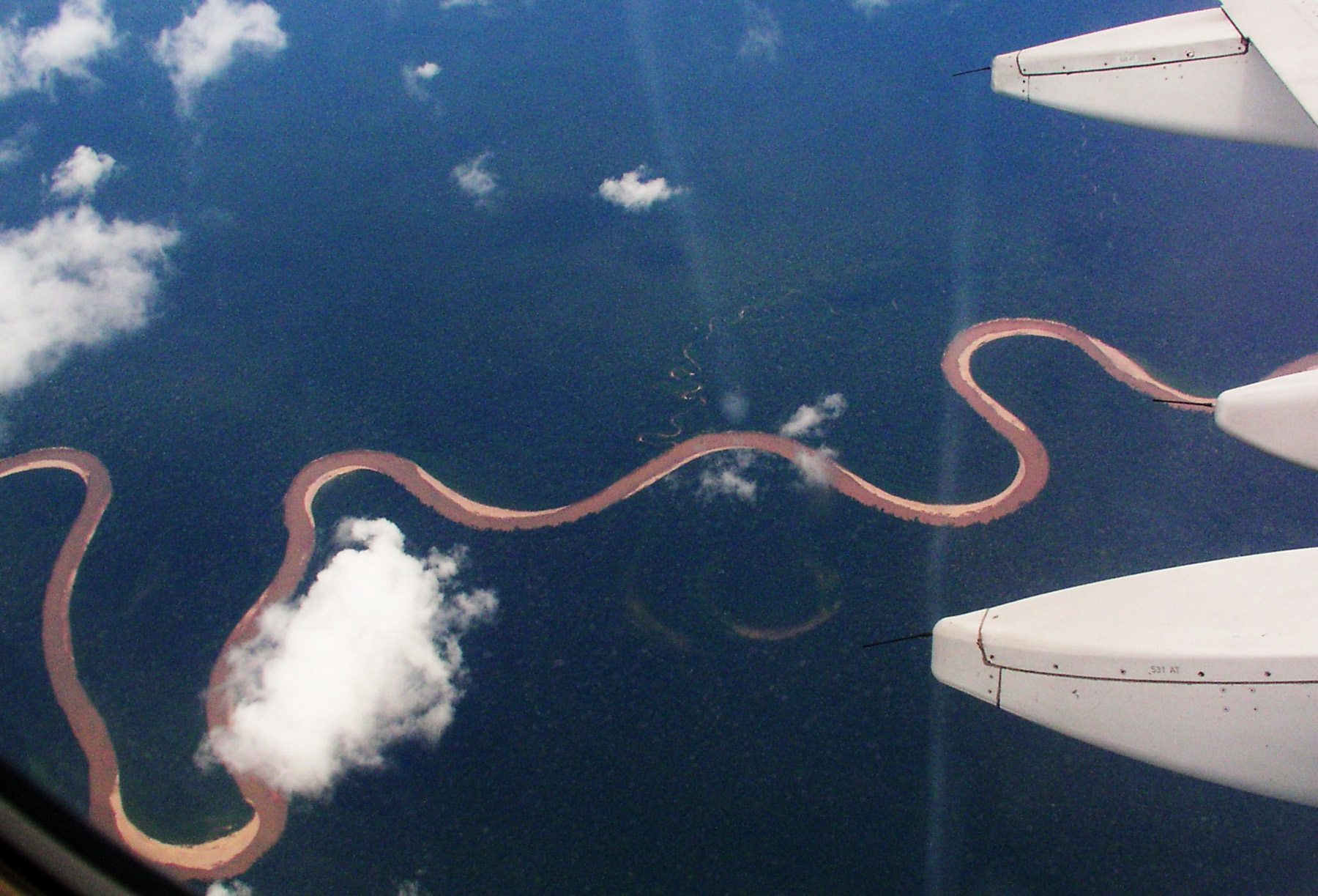 Picture shows the meander form of the river.